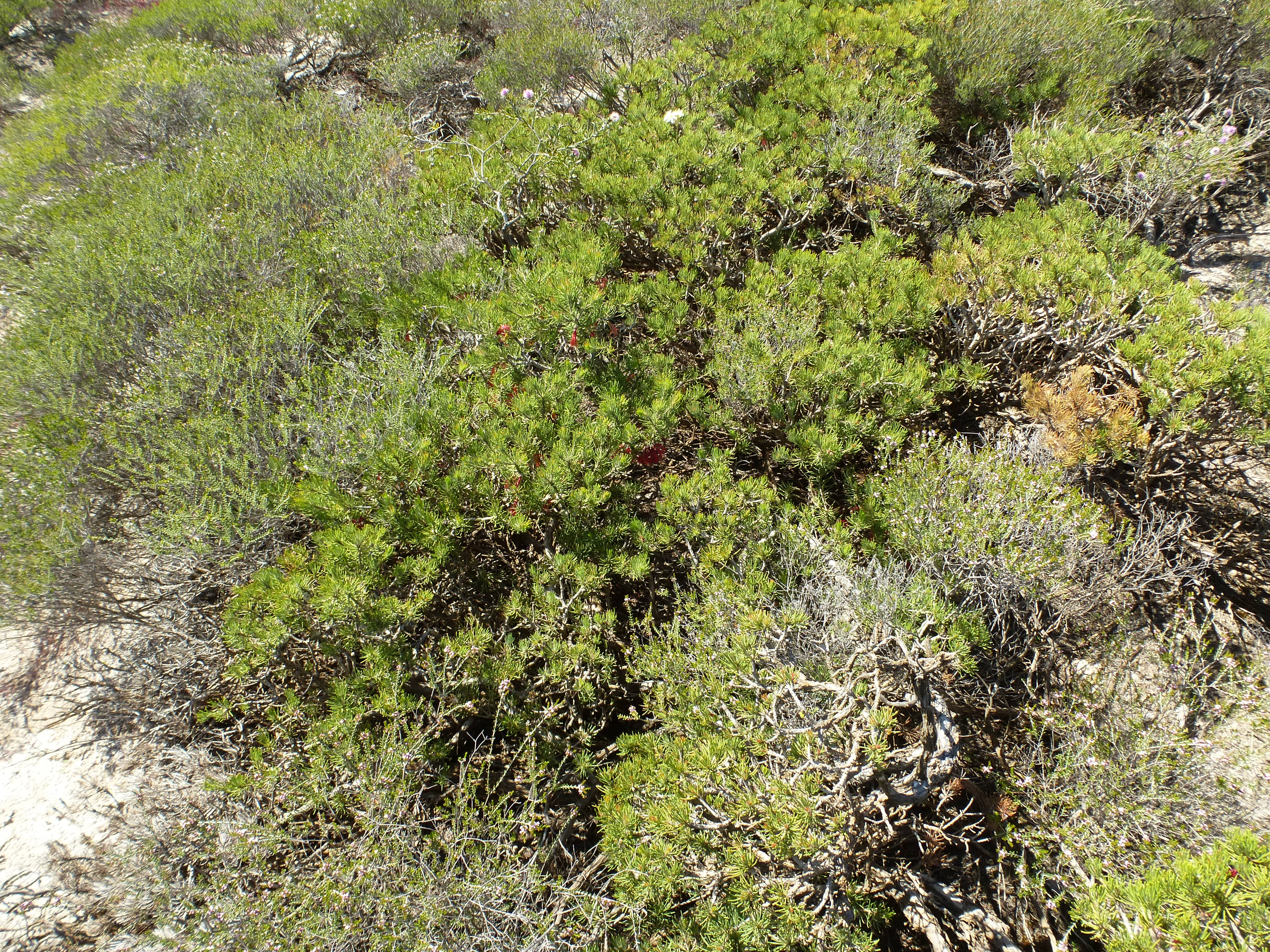 Calothamnus hirsutus growing 25 km north of Eneabba